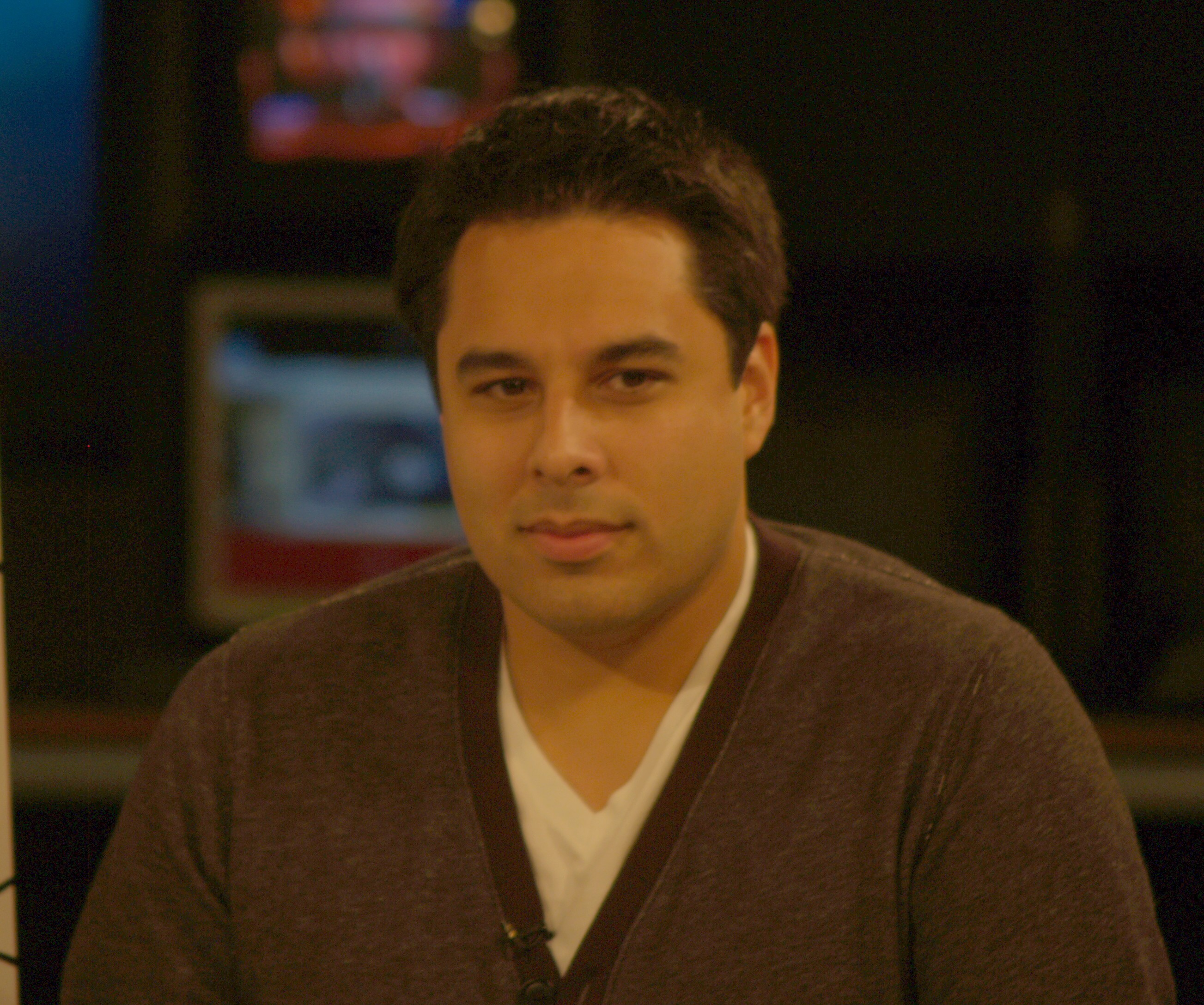 Photo of the Director of the movie "More Than A Game" Kristopher Belman taken by Phil Konstantin Please acknowledge "Phil Konstantin" as the creator of this photograph.